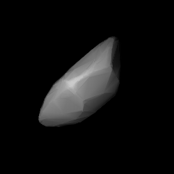 3D convex shape model of 4954 Eric, computed using light curve inversion techniques. J. Hanuš, J. Ďurech, M. Brož, B. D. Warner (June 2011). "A study of asteroid pole-latitude distribution based on an extended set of shape models derived by the lightcurve inversion method". Astronomy and Astrophysics 530: A134. ISSN 0004-6361. arXiv